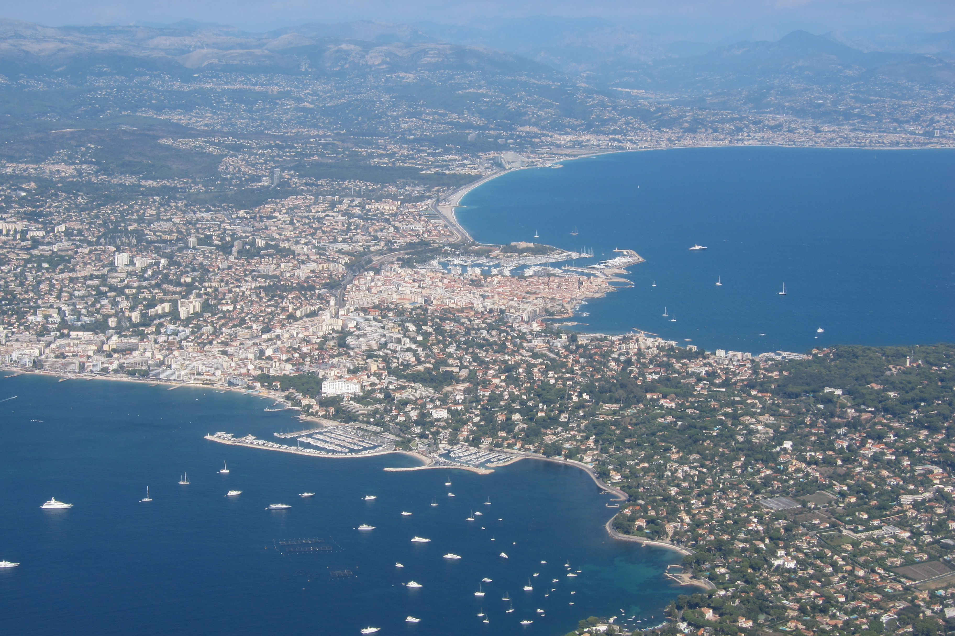 Antibes and Juan-les-Pins seen from the sky